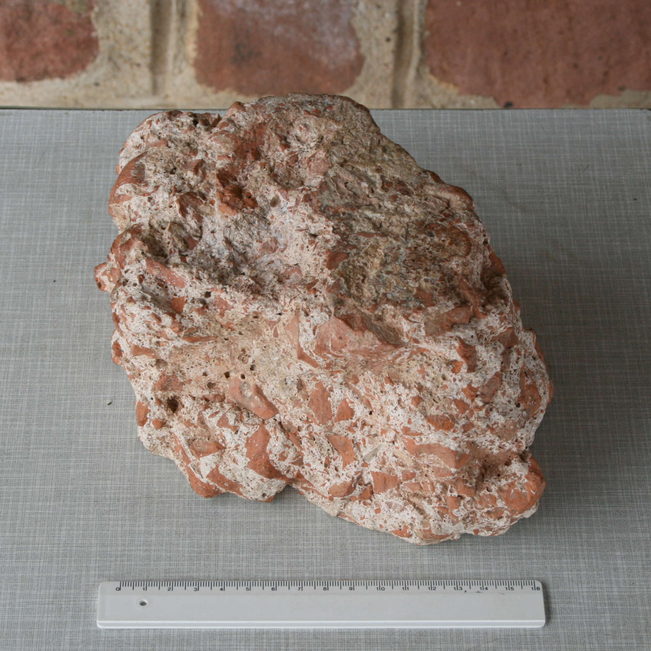 Fragment of Opus signinum, roman pavement with parts of broken pottery from a villa in Germany